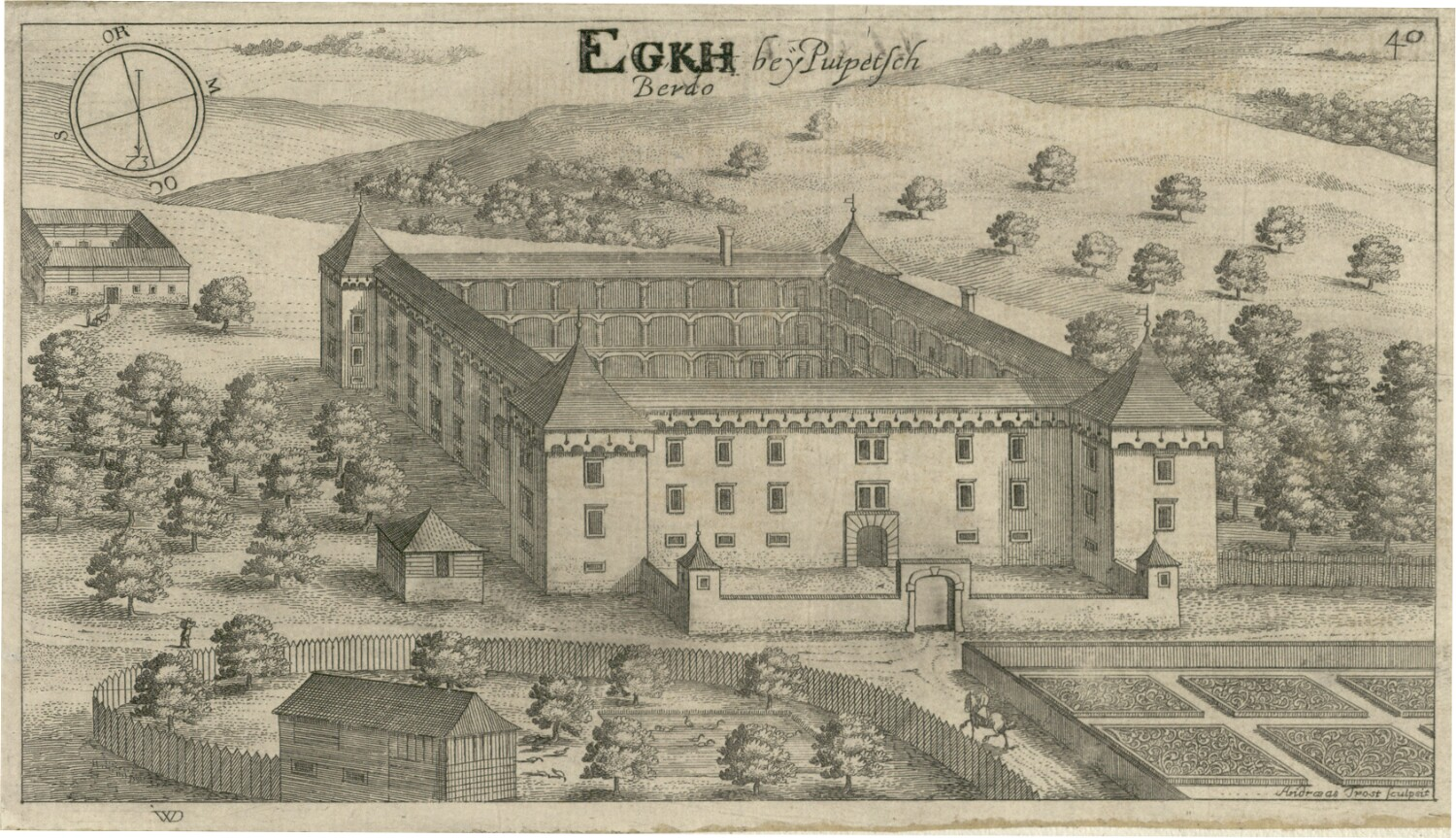 Brdo pri Lukovici castle